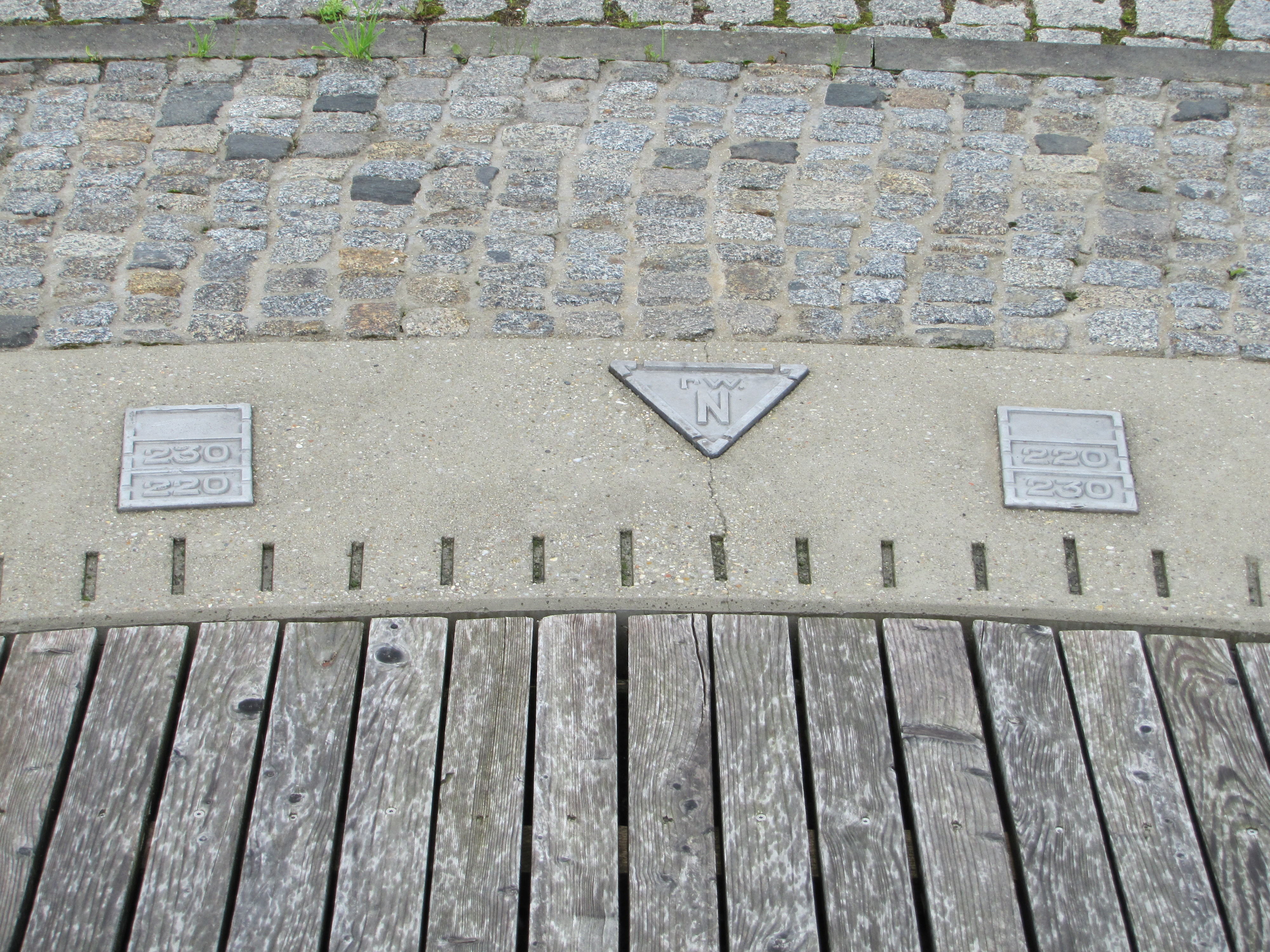 Former Compensation Disk of Airfield Großenhain - detail